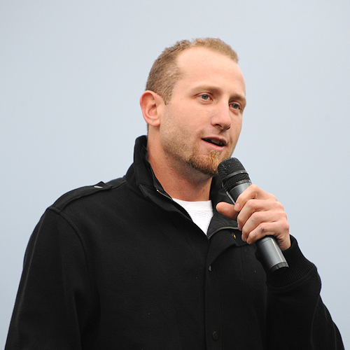 Dallas Braden speaks at Banner Island Ballpark in Stockton, CA during a ceremony honoring his perfect game.